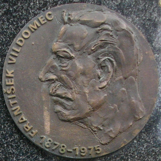 1988 bronze memorial plaque of Czech archaelogist František Vildomec by Zdeněk Maixner at building on South Moravian museum in Znojmo.